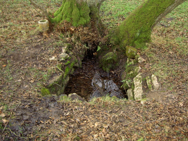 St. Tegla's Well, Llandegla., near to Llandegla, Denbighshire/Sir Ddinbych, Wales. Llandegla is named after St. Tegla, who is also the patron saint of the village church. The well now has a new footpath to it from the west side of the River Alyn, before crossing over a footbridge just before reaching the well.